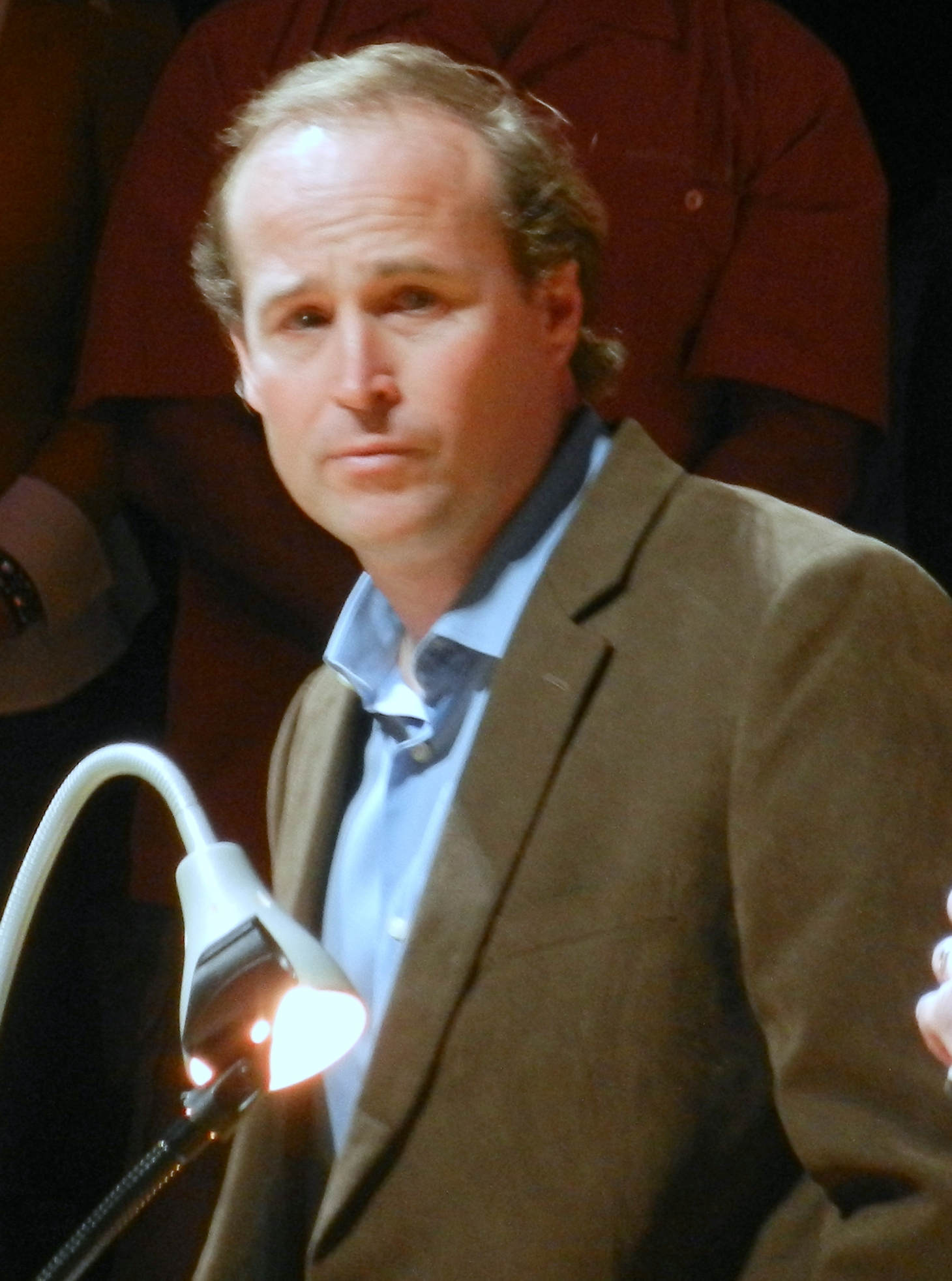 WVU football coach Dana Holgorsen